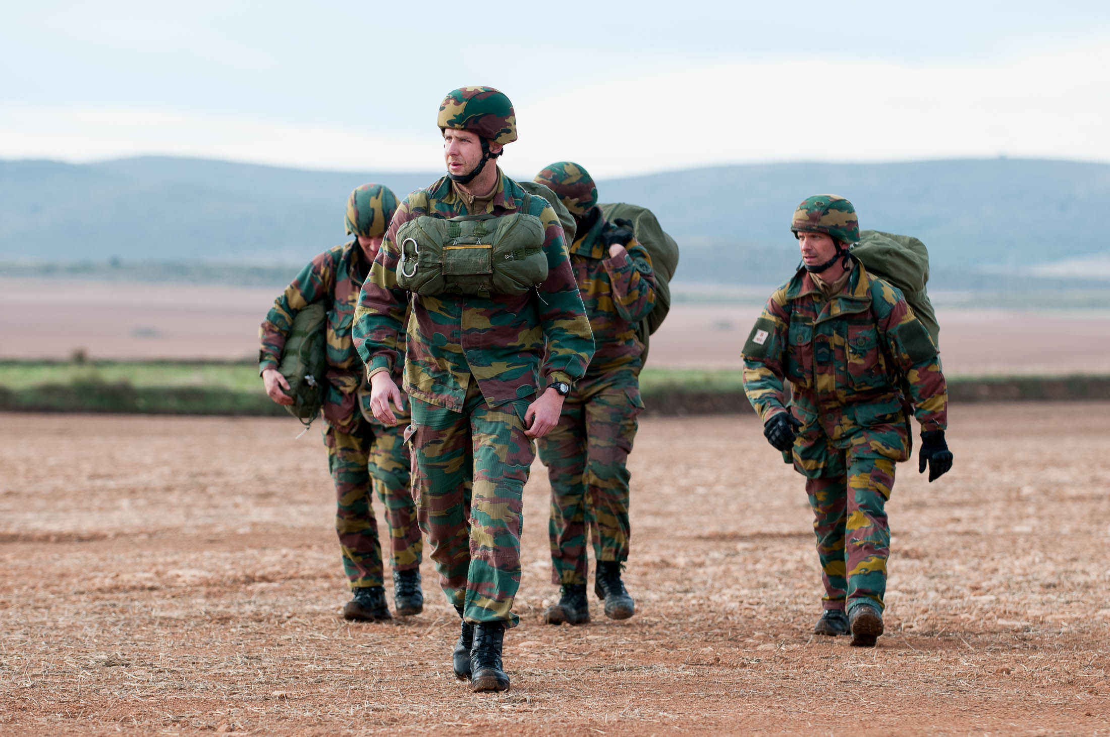 Paratroopers of 2nd Commando Battalion, Belgian Para-Commando Regiment, successfully jump during an airborne operation at Trident Juncture 2015 in Chinchilla, Spain on October 23, 2015 (U.S. Army photo by Capt. Jeku Arce 30th Medical Brigade Public Affairs).